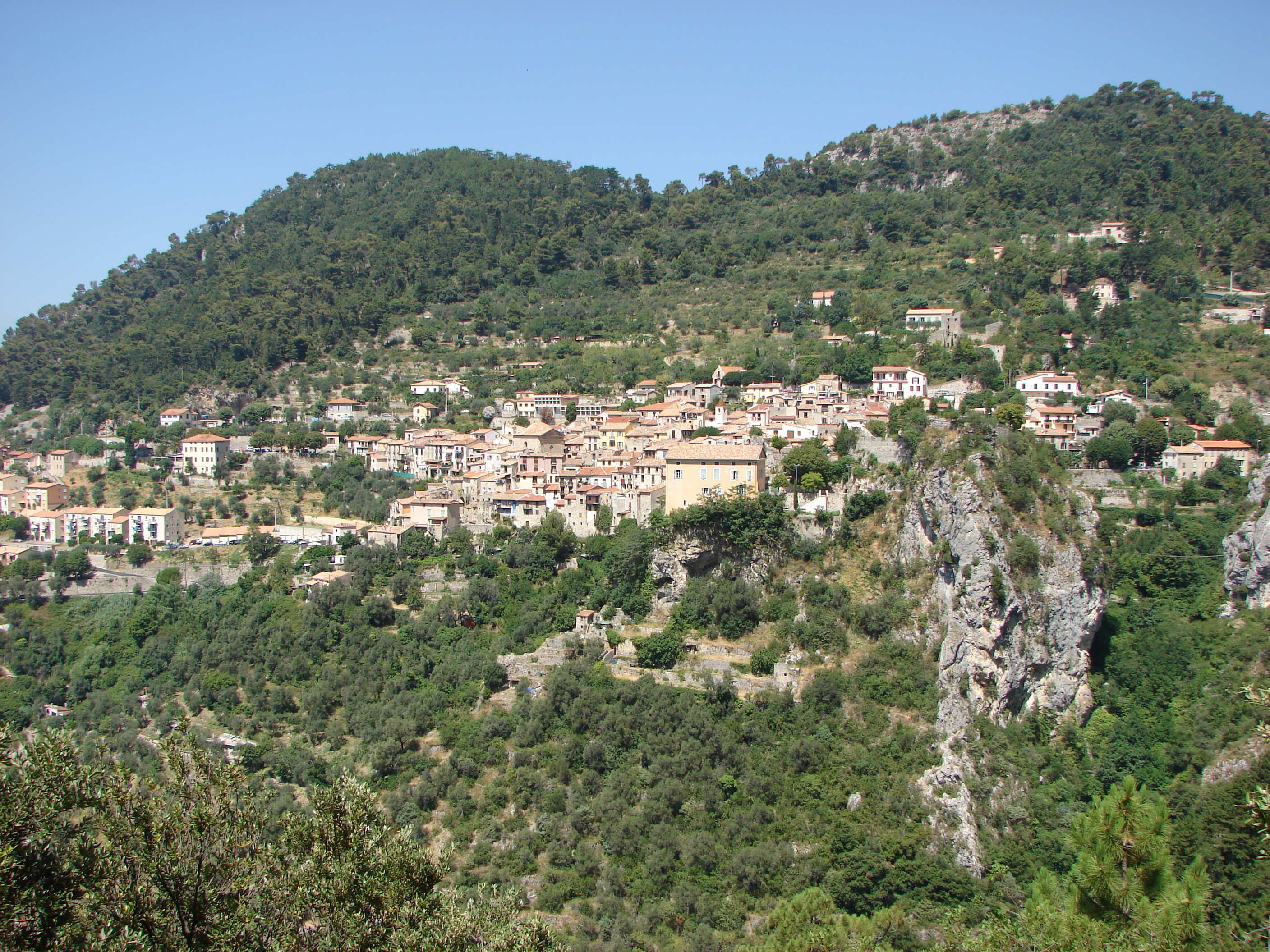 View of Peille (France)